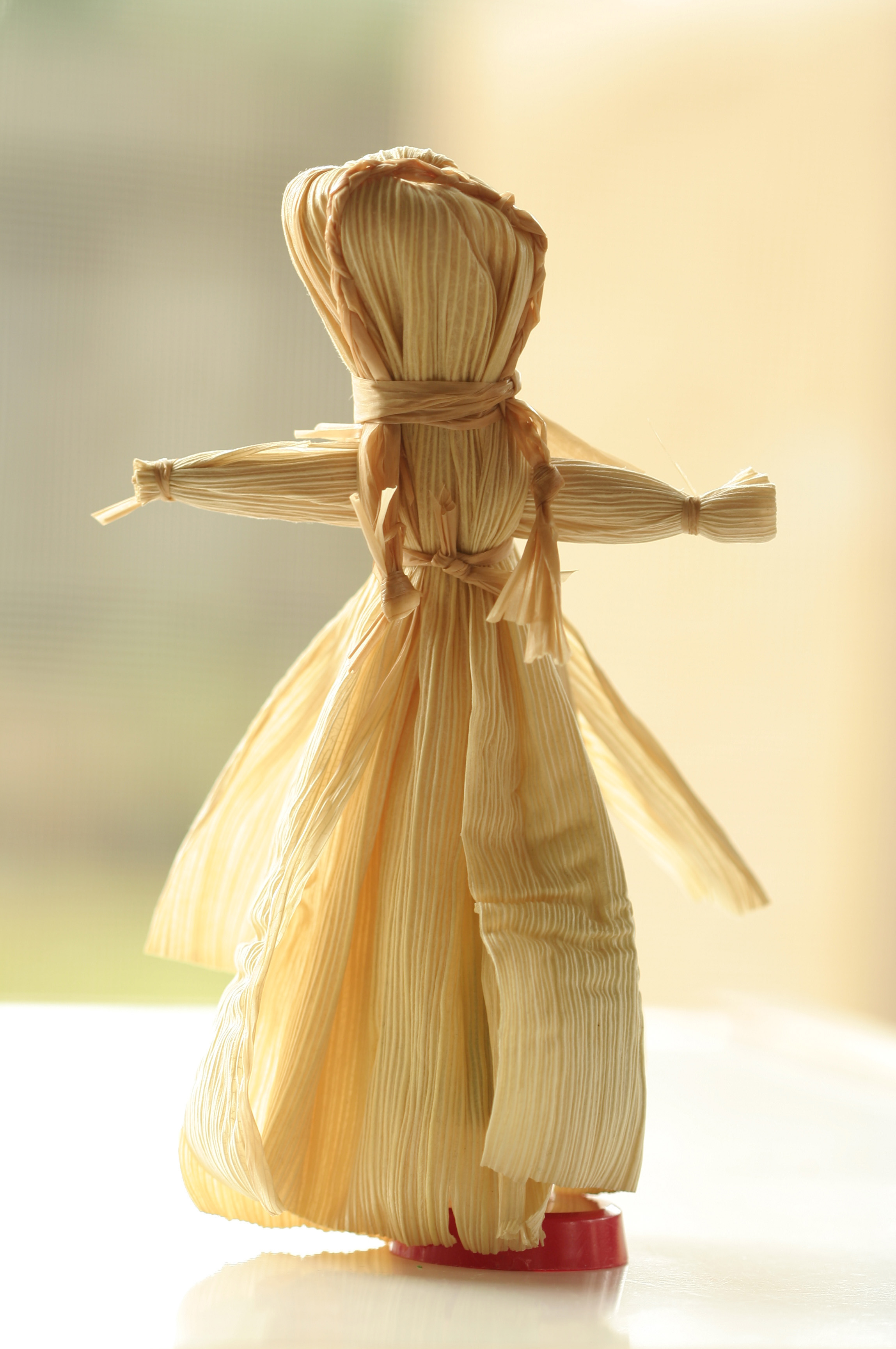 A corn husk doll my son made (with lots of help from Mom). Traditional native American design at San Jose Discovery Museum. Details: Handheld, golden hour light near patio window.